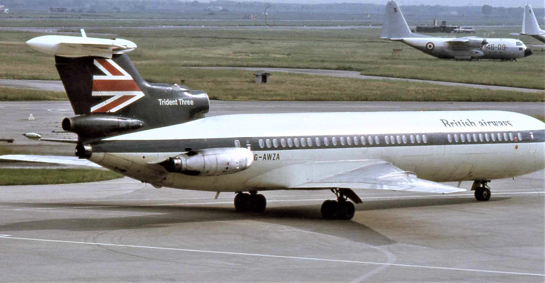 British Airways Hawker Siddeley Trident 3B G-AWZA, c/n 2302 delivered to British European Airways on January 9, 1974. Here is taken at Pisa Galileo Galilei Airport in 1975, with the new airline name after the merger between BEA and BOAC.